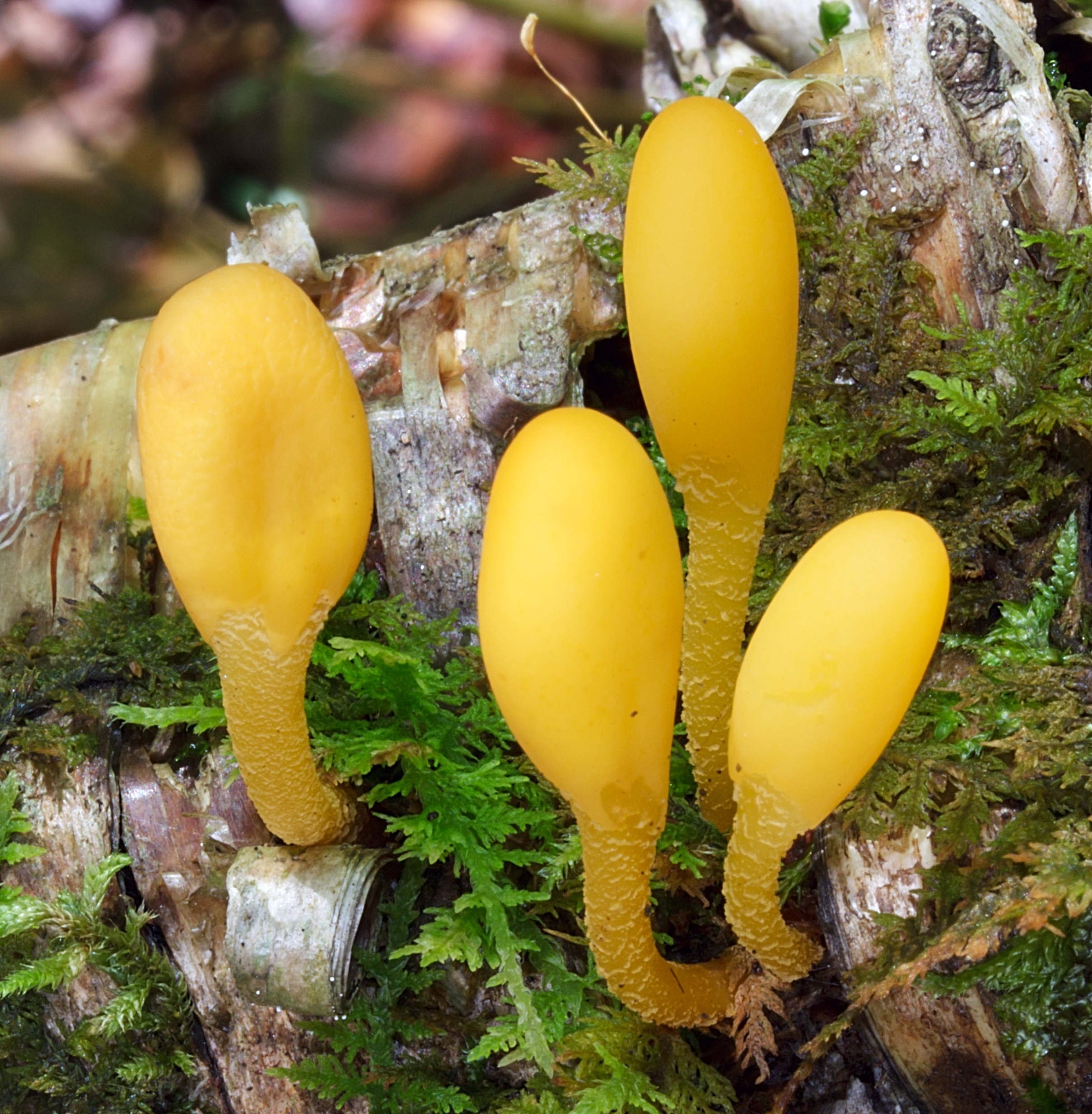 Microglossum rufum (Schwein.) Underw. Image location: Conway, New Hampshire, USA Substrate: birch stick Recognized by sight For more information about this, see the observation page at Mushroom Observer.